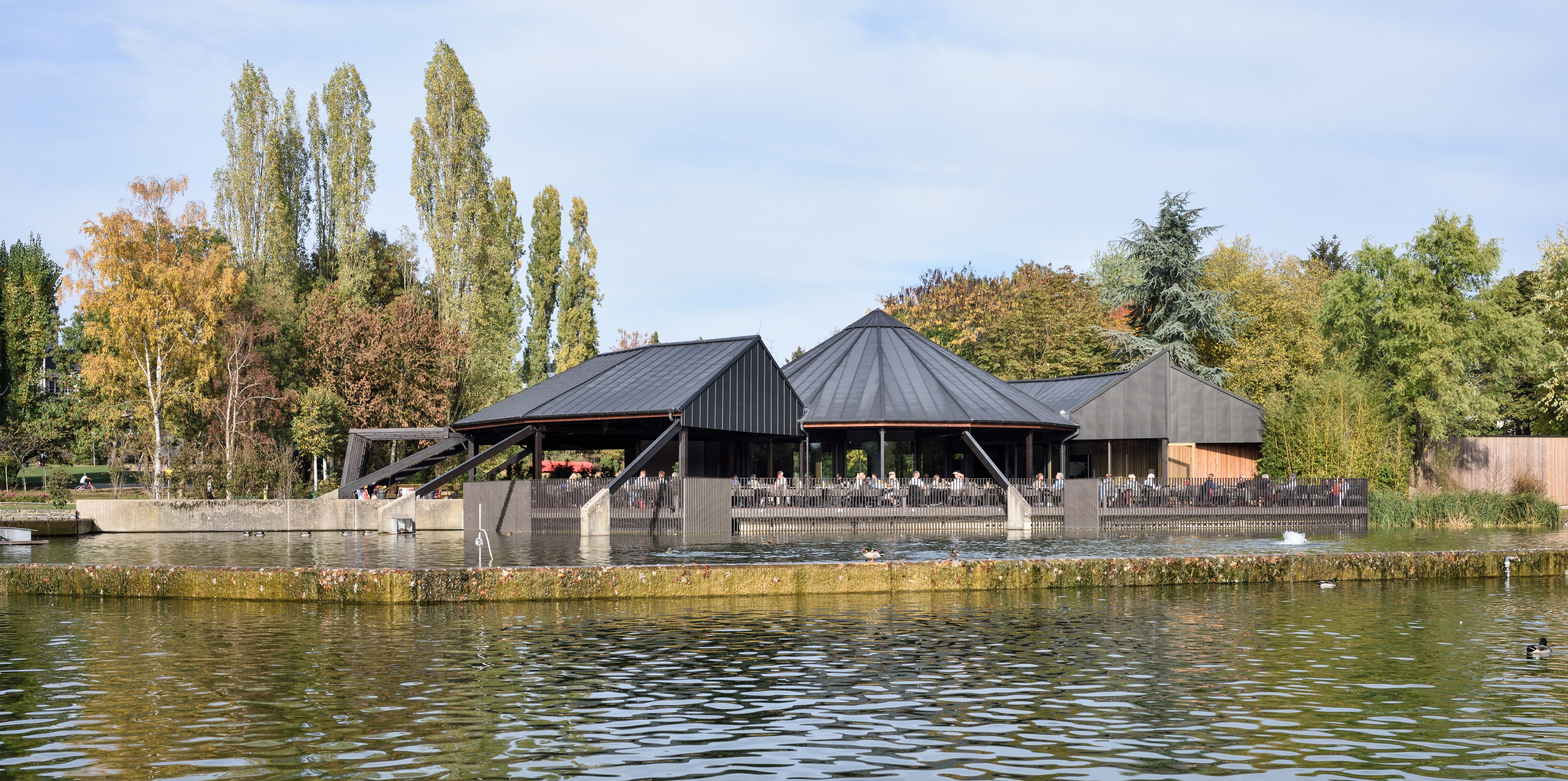 Luxembourg City, Parc de Merl: water basin and pavilion with terrace above the water. The pavilion was renovated and enlarged in 2016/2018.